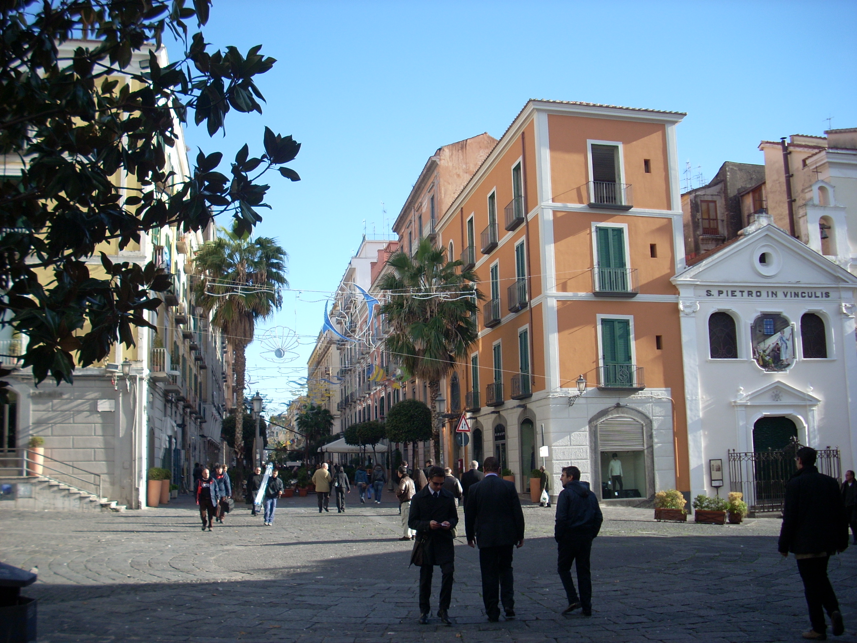 Piazza Portanova and Corso Vittorio Emanuele II, Salerno.